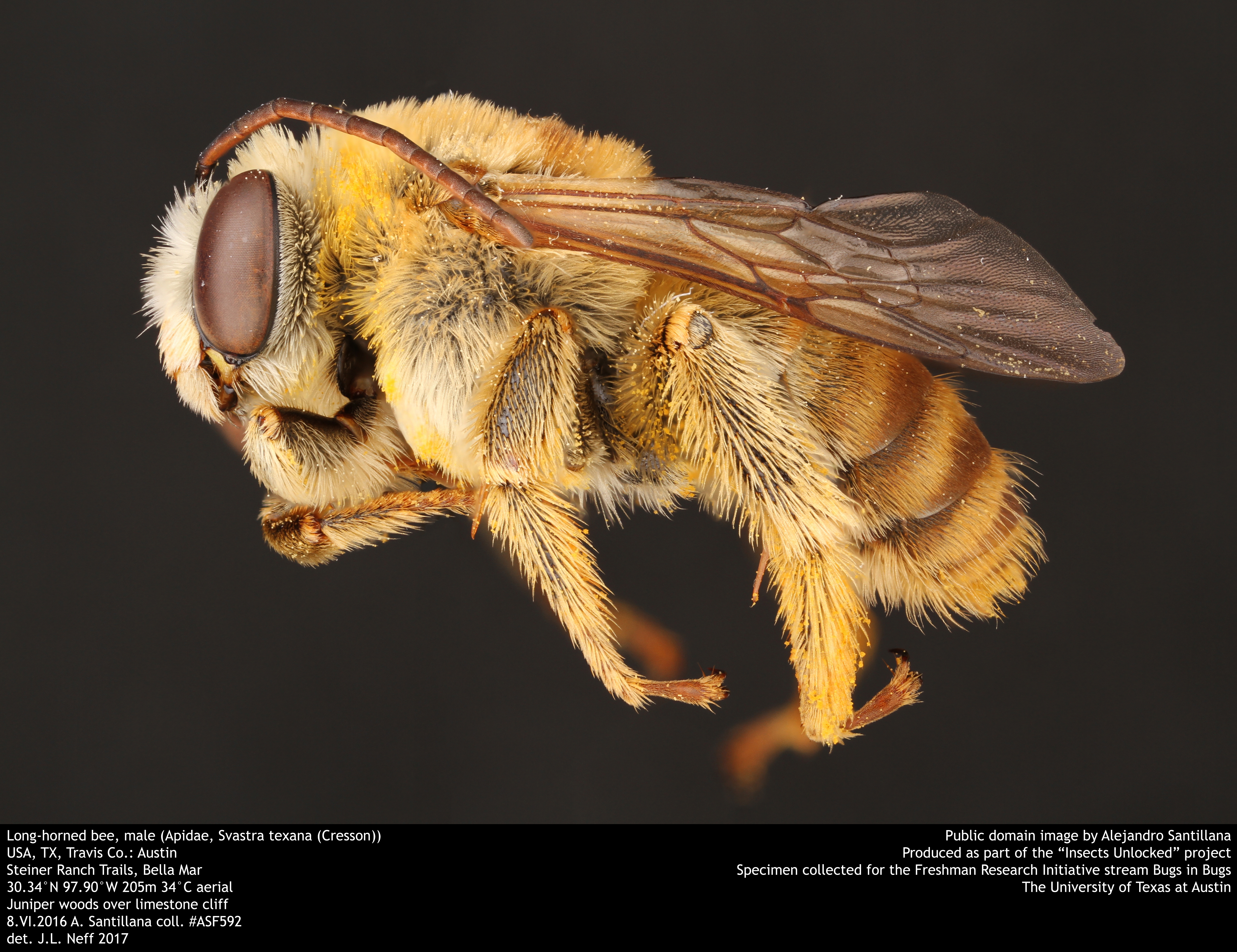 Long-horned bee, male (Apidae, Svastra texana (Cresson)) USA, TX, Travis Co.: Austin Steiner Ranch Trails, Bella Mar 30.34°N 97.90°W 205m 34°C aerial Juniper woods over limestone cliff 8.VI.2016 A. Santillana coll. #ASF592 det. J.L. Neff 2017